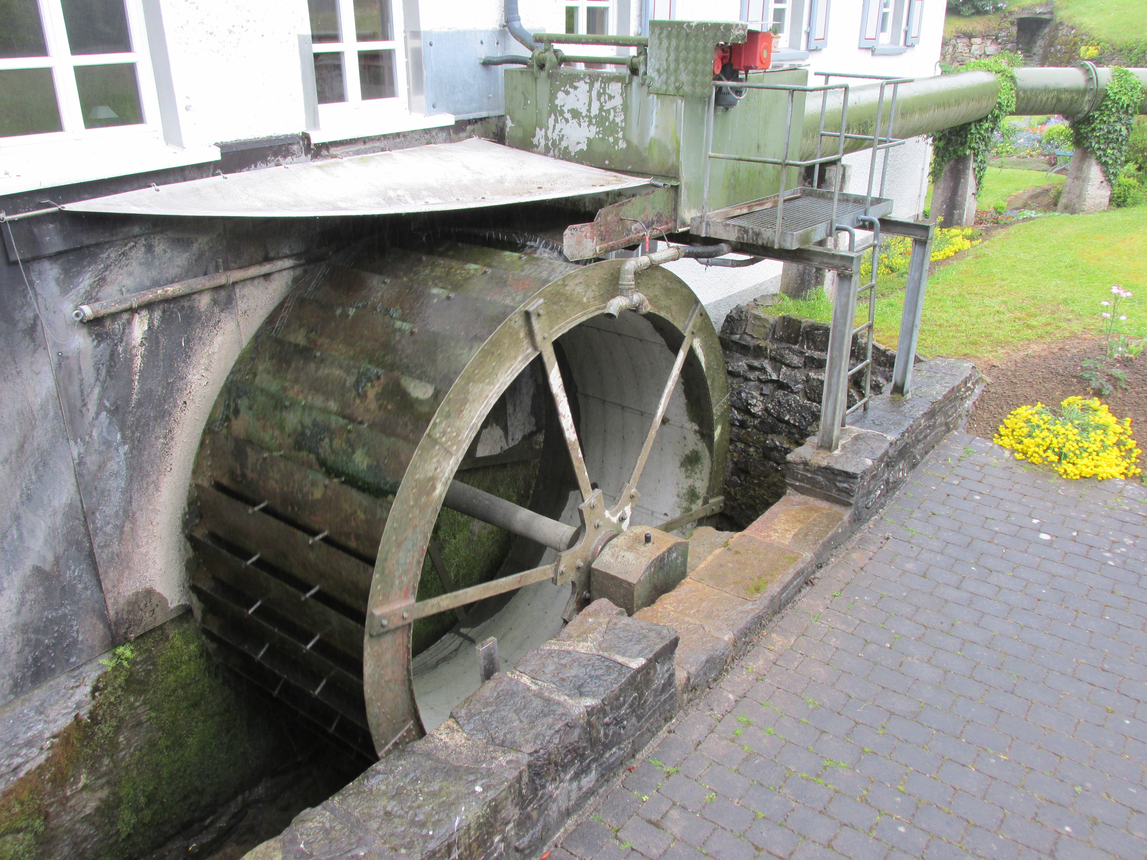 Frettermühle, Finnentrop, Germany check usage